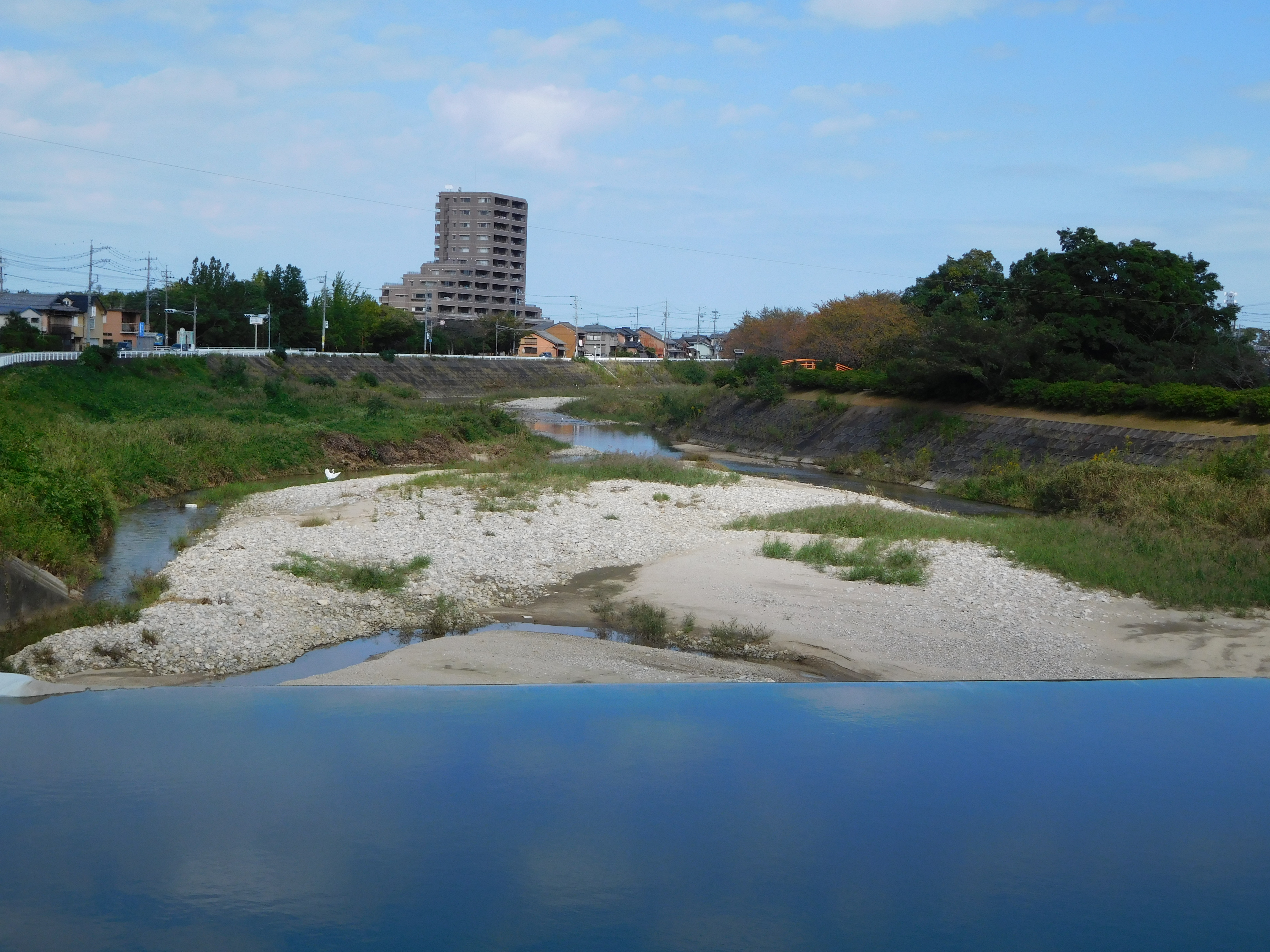 This is a landscape of River Sakanai in Matsusaka, Mie, Japan.